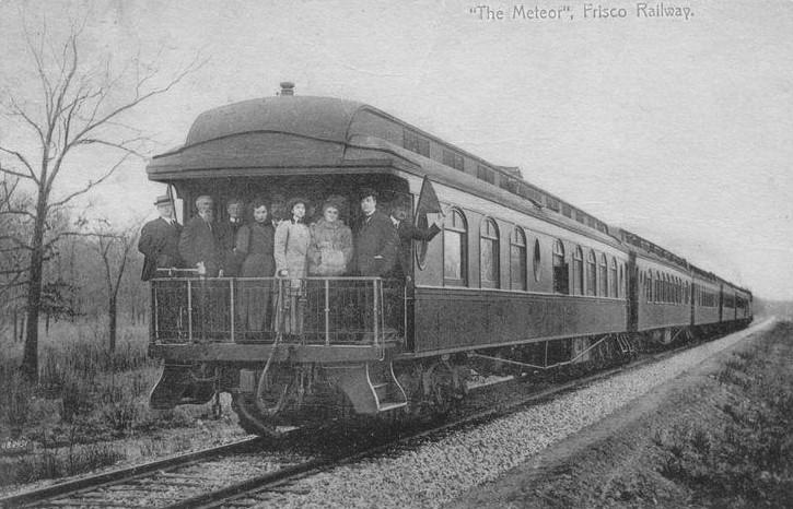 Postcard photo of the Frisco Meteor from its observation platform in 1909.